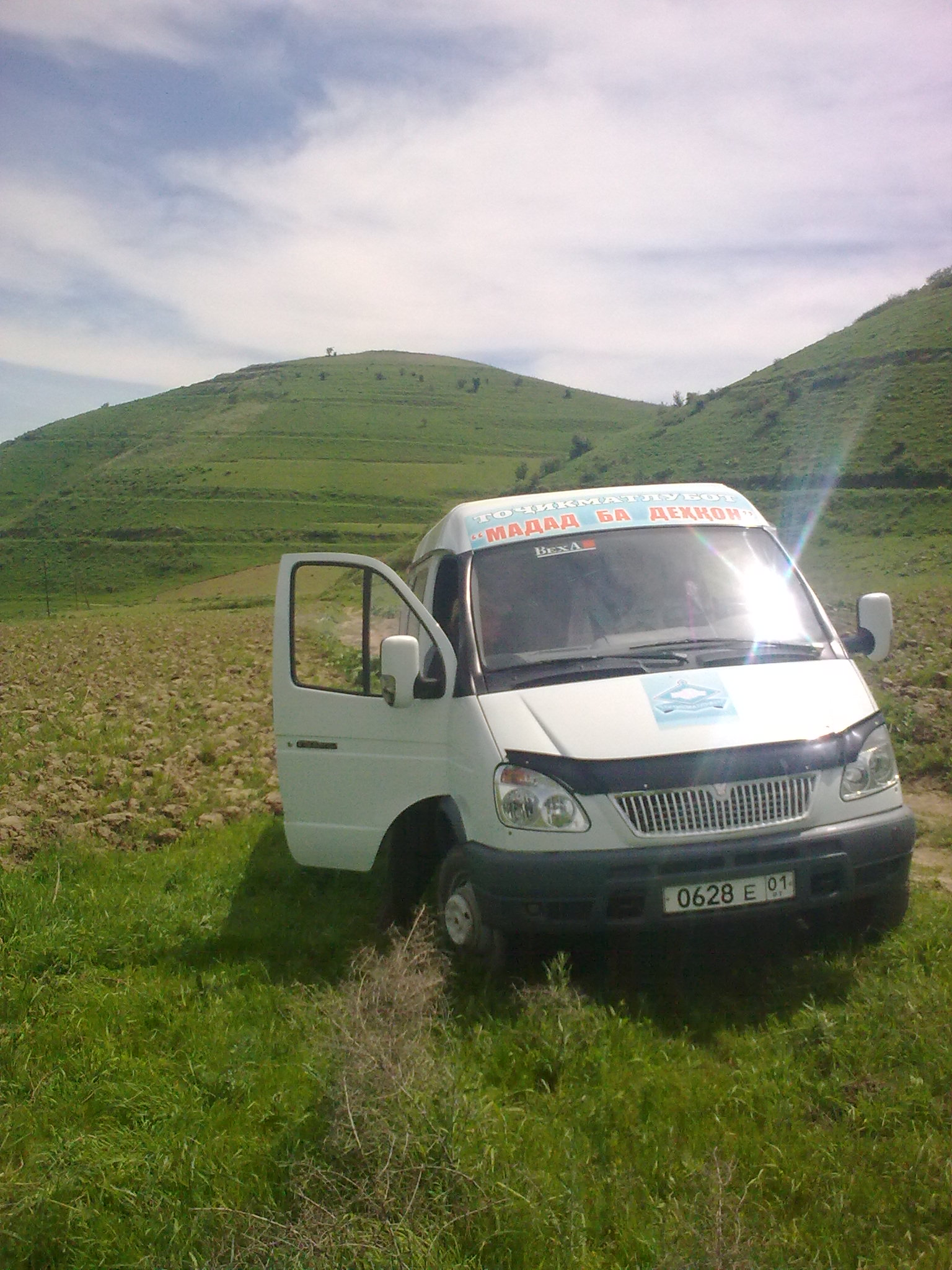 Gazelle (GAZ-3221)